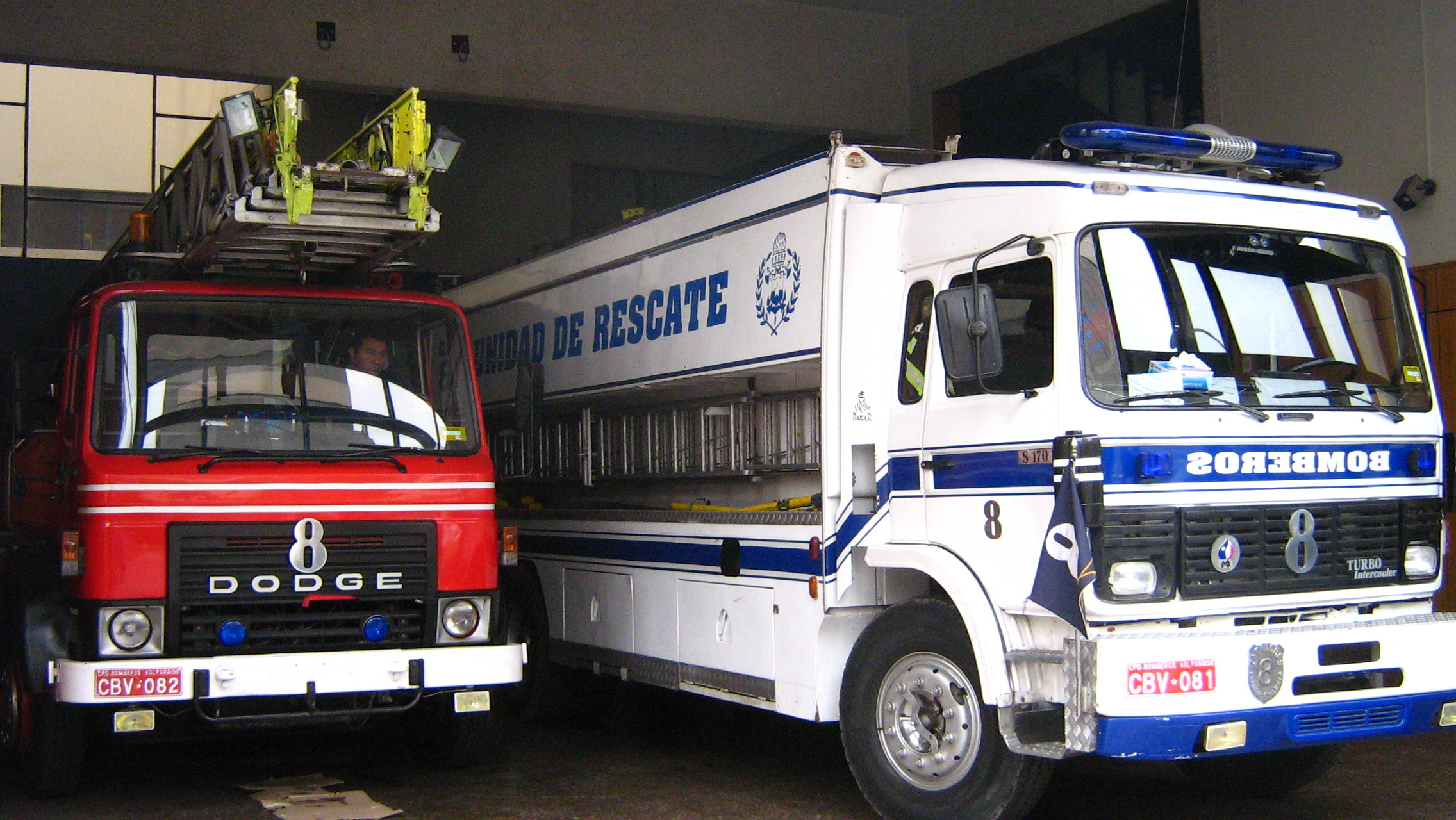 Fire engine (Fire truck)